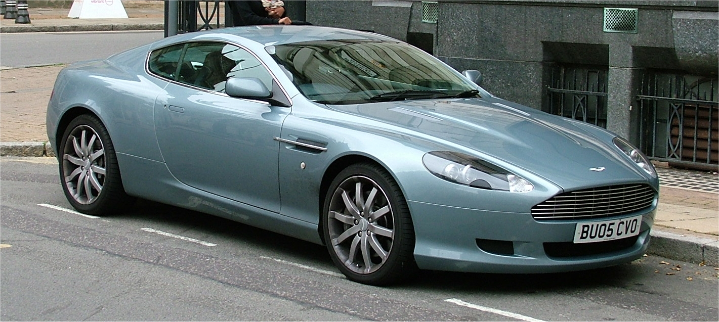 Aston Martin DB9 - Birmingham